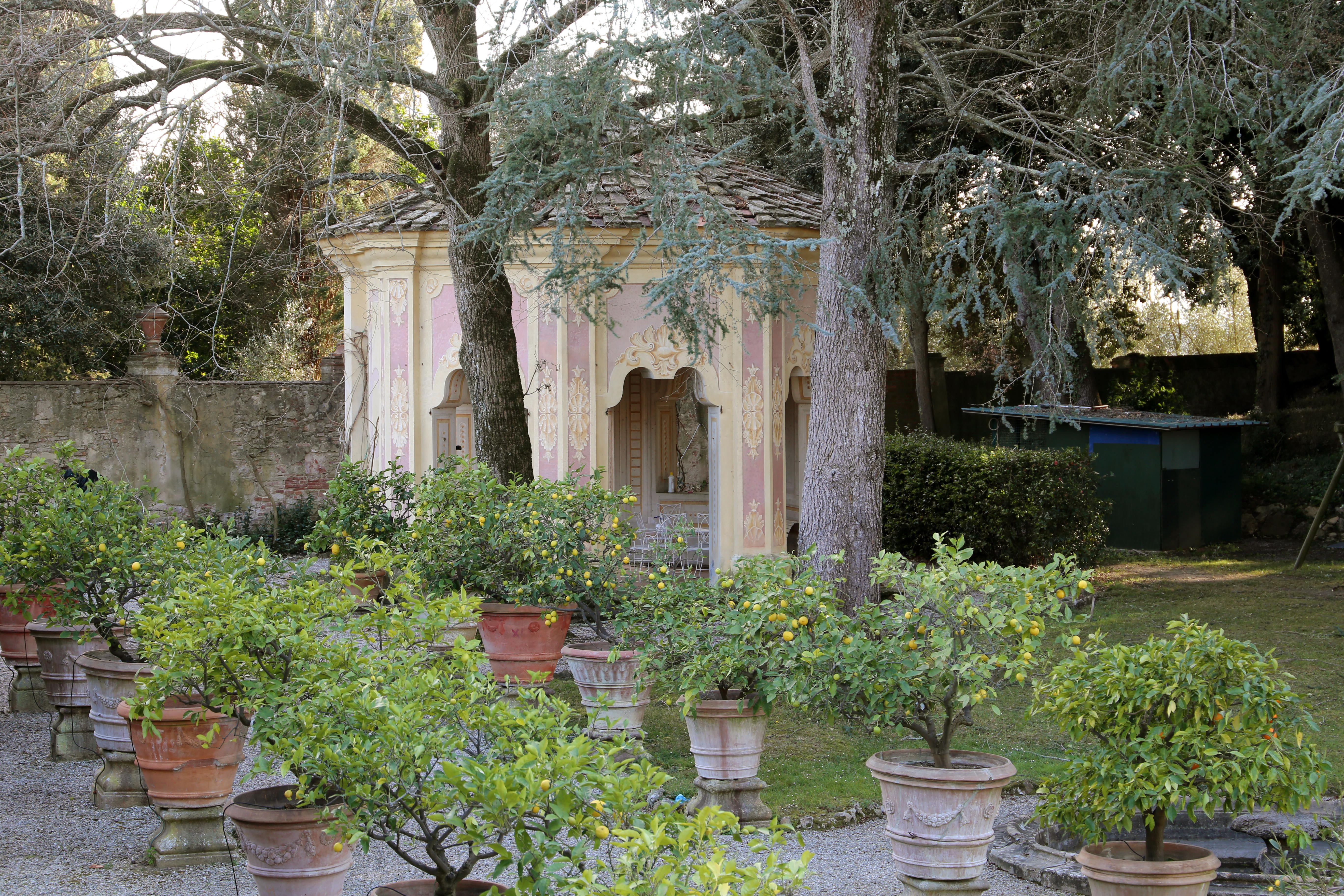 Villa del Carretta (Belvedere, Crespina)